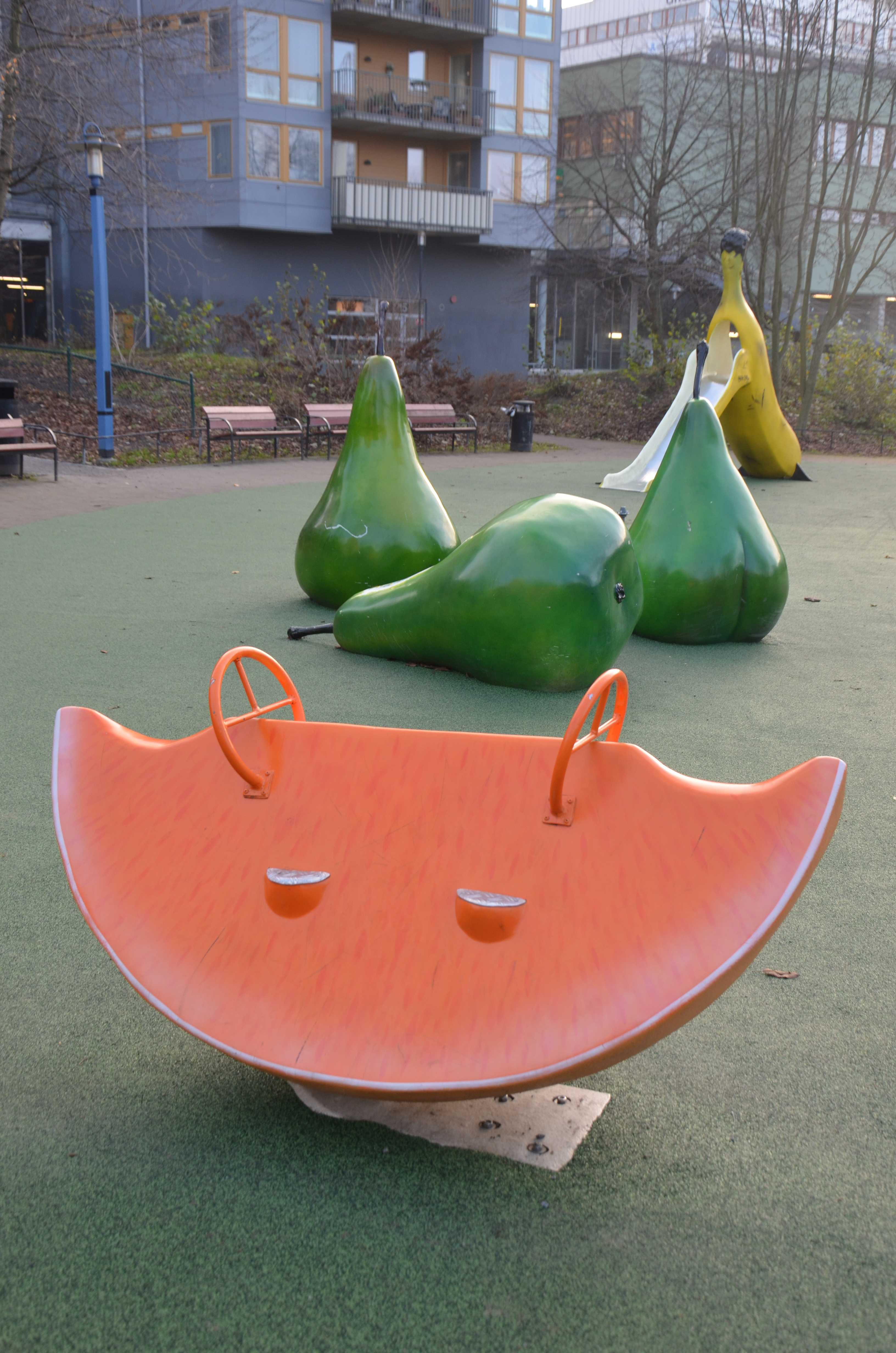 Johan Ferner Ströms Fruktparken i Liljeholmen i Stockholm